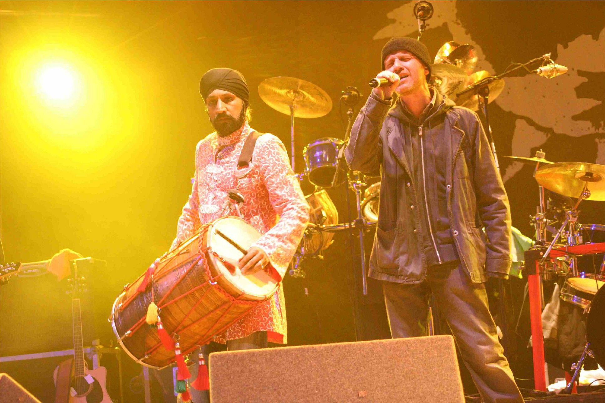 Johnny Kalsi and Iarla Ó Lionáird, Afro Celt Sound System Beautiful Days Festival, Devon, August 21st 2007